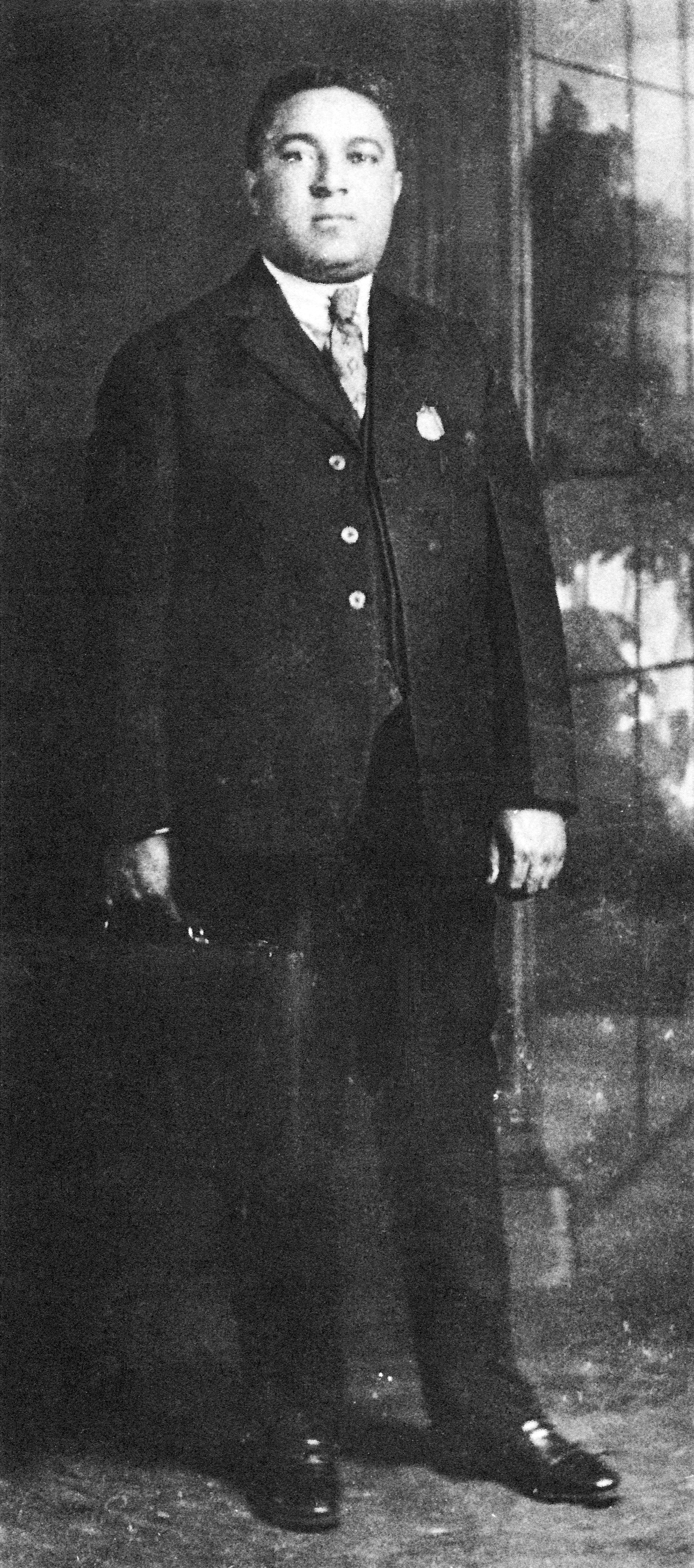 Full-length portrait of clarinetist and band leader Jimmie Noone (1895–1944)